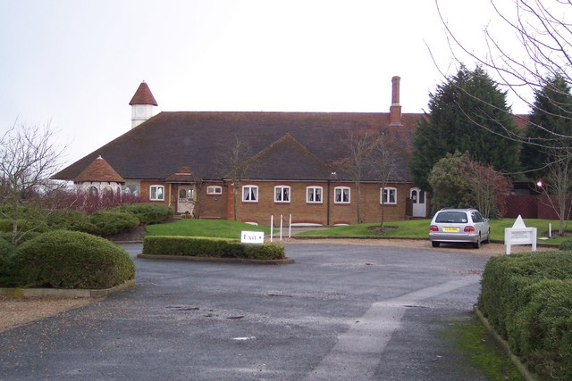 Chart Hills Golf Clubhouse Seen from the car park of Weeks Lane. for more details on the club.